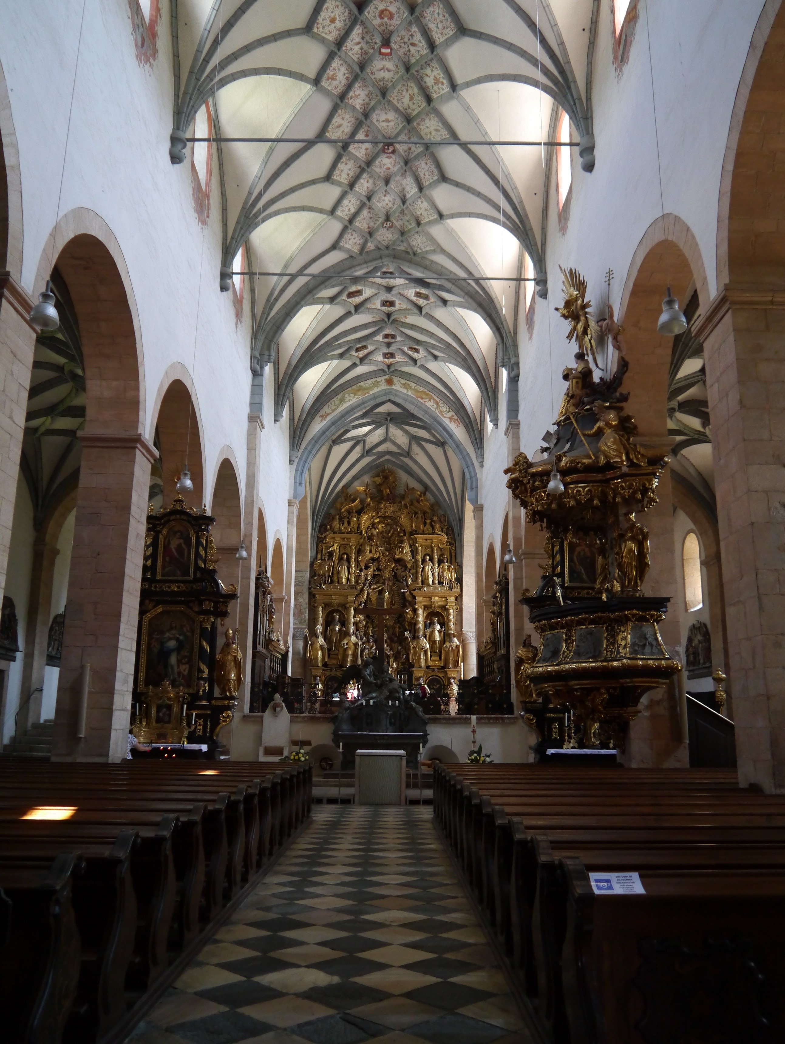 Nave of the Cathedral St. Mary Assumption, Gurk, Carinthia